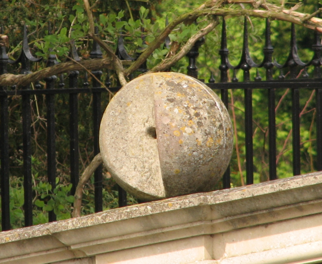 A picture of the ball with the missing wedge on Clare Bridge